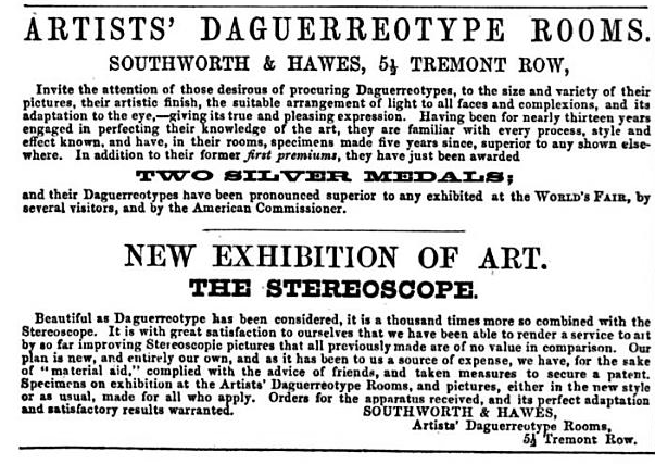 Ad for Southworth & Hawes; daguerreotype, stereoscope; Tremont Row, Boston